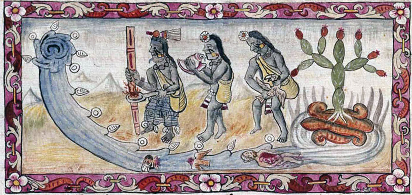 In 1499, the Aztecs performed rituals, including a child sacrifice, to appease the angry gods who had flooded their capital, Tenochtitlan.